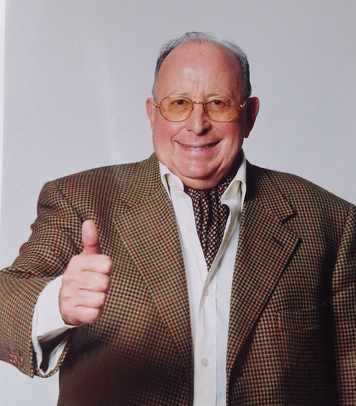 Olivier Lecerf, former CEO of Lafarge